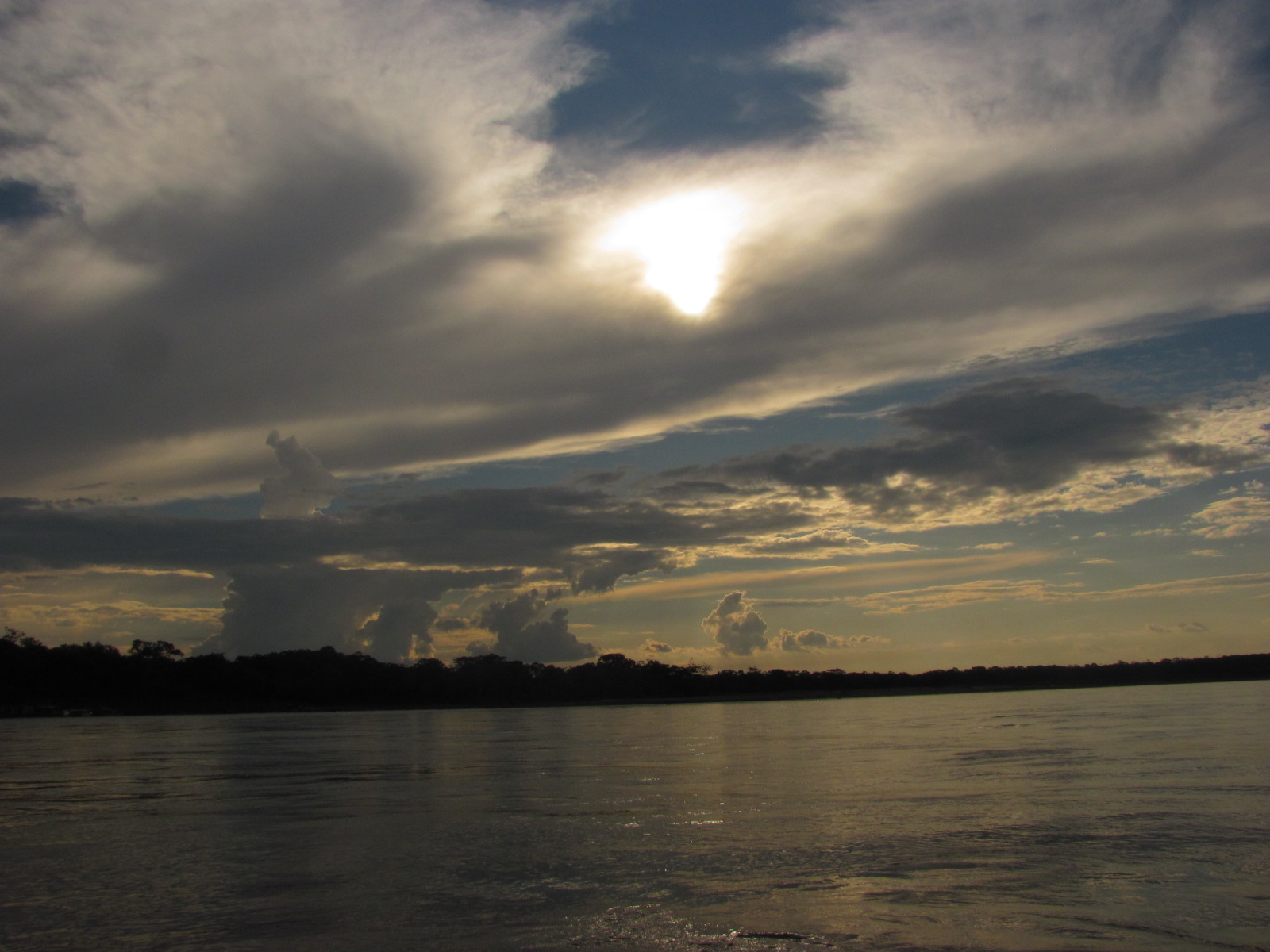 Guaviare River Sunset in San José del Guaviare, Guaviare department, Colombia.